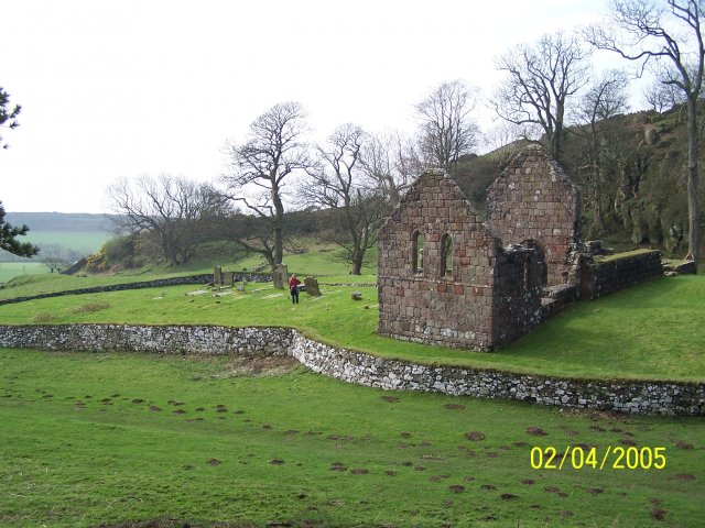 St Blane's Chapel. St Blane's Chapel